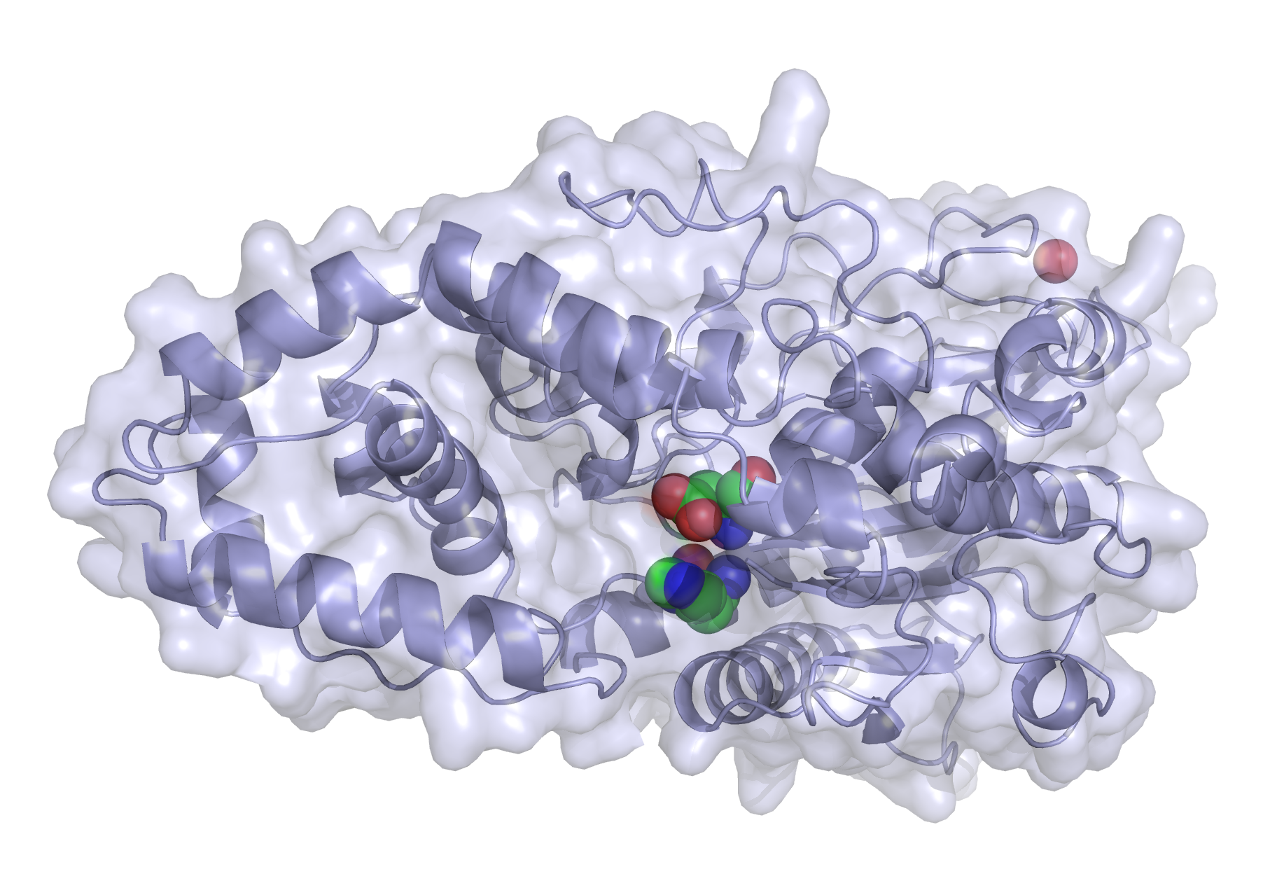 3d ribbon/surface model of 3-phytase from Aspergillus niger. The catalytic centre (His-59 and Asp-339) is emphasized. From PDB 1IHP. Ref.: D.Kostrewa et al. (1997). Crystal structure of phytase from Aspergillus ficuum at 2.5 A resolution.. Nat Struct Biol, 4, 185-190. PMID 9164457 [